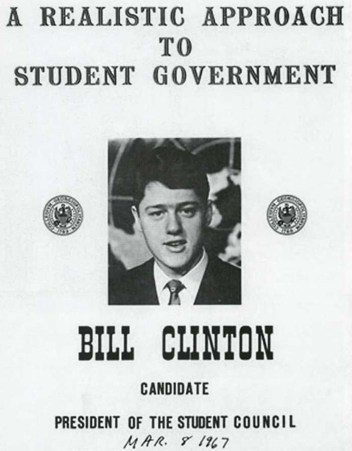 Bill Clinton’s flyer as he ran for President of the student body at Georgetown University